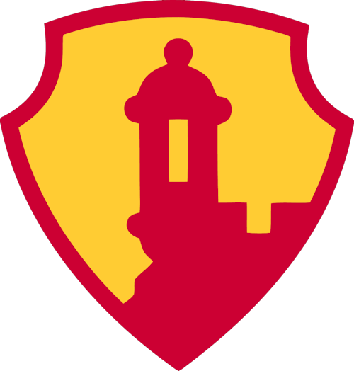 Emblem of the United States Antilles Command (World War II)